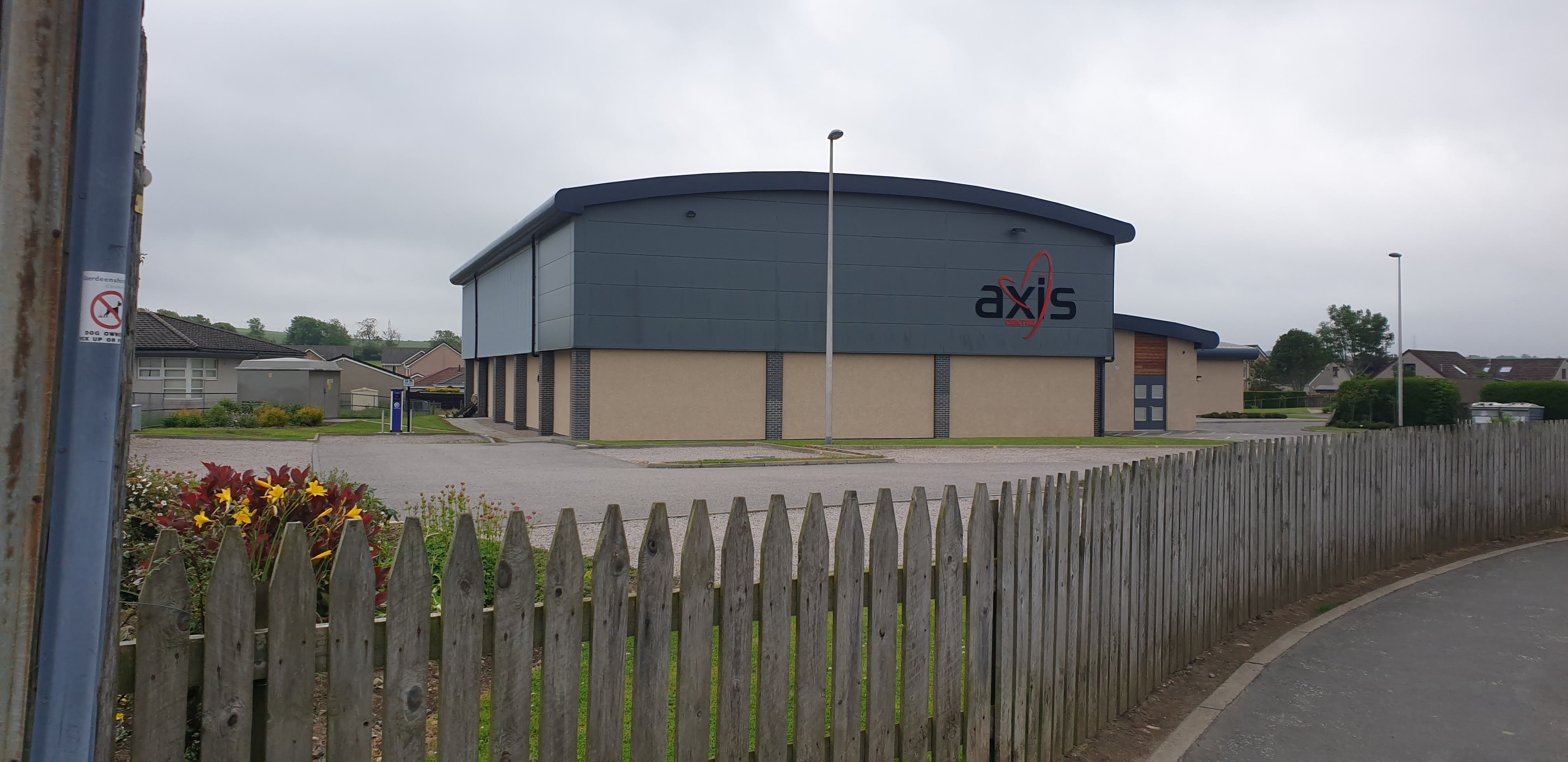 This multi purpose facility is aptly named as it can be found in the centre of Newmachar, built to cater for all ages in the local area and beyond. It was officially opened on the 30th of August 2014. Owned and managed by the community, it is run on a not for profit basis as registered charity with the aim of promoting opportunities in culture, learning, sport, leisure, health and well-being